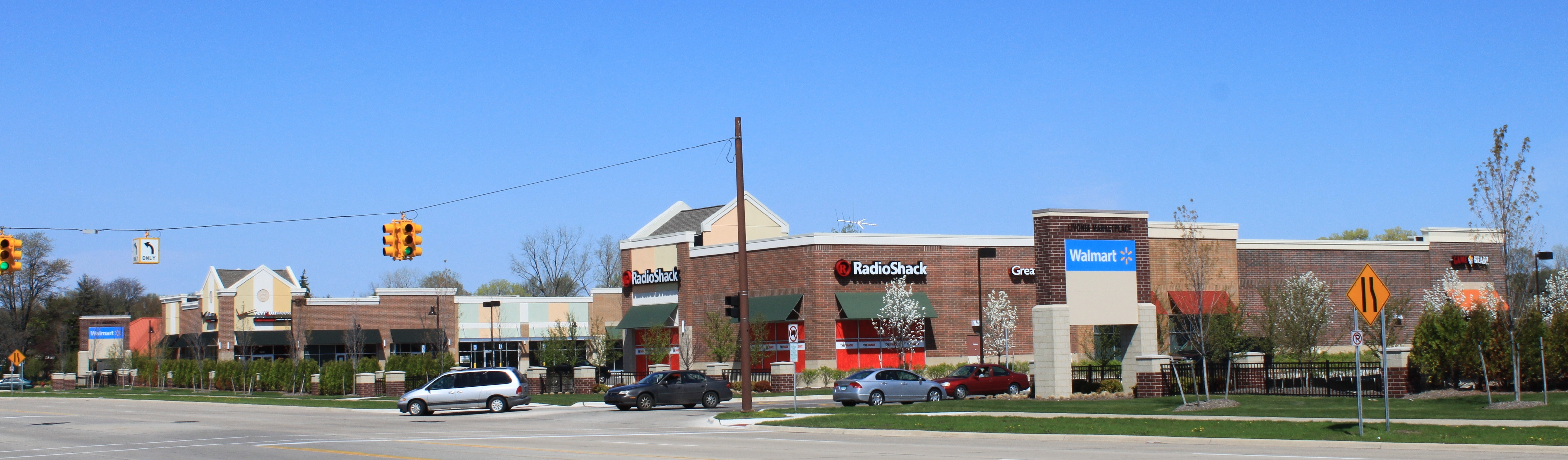 Livonia Marketplace shopping center entrance, 29476 Seven Mile Road, Livonia, Michigan